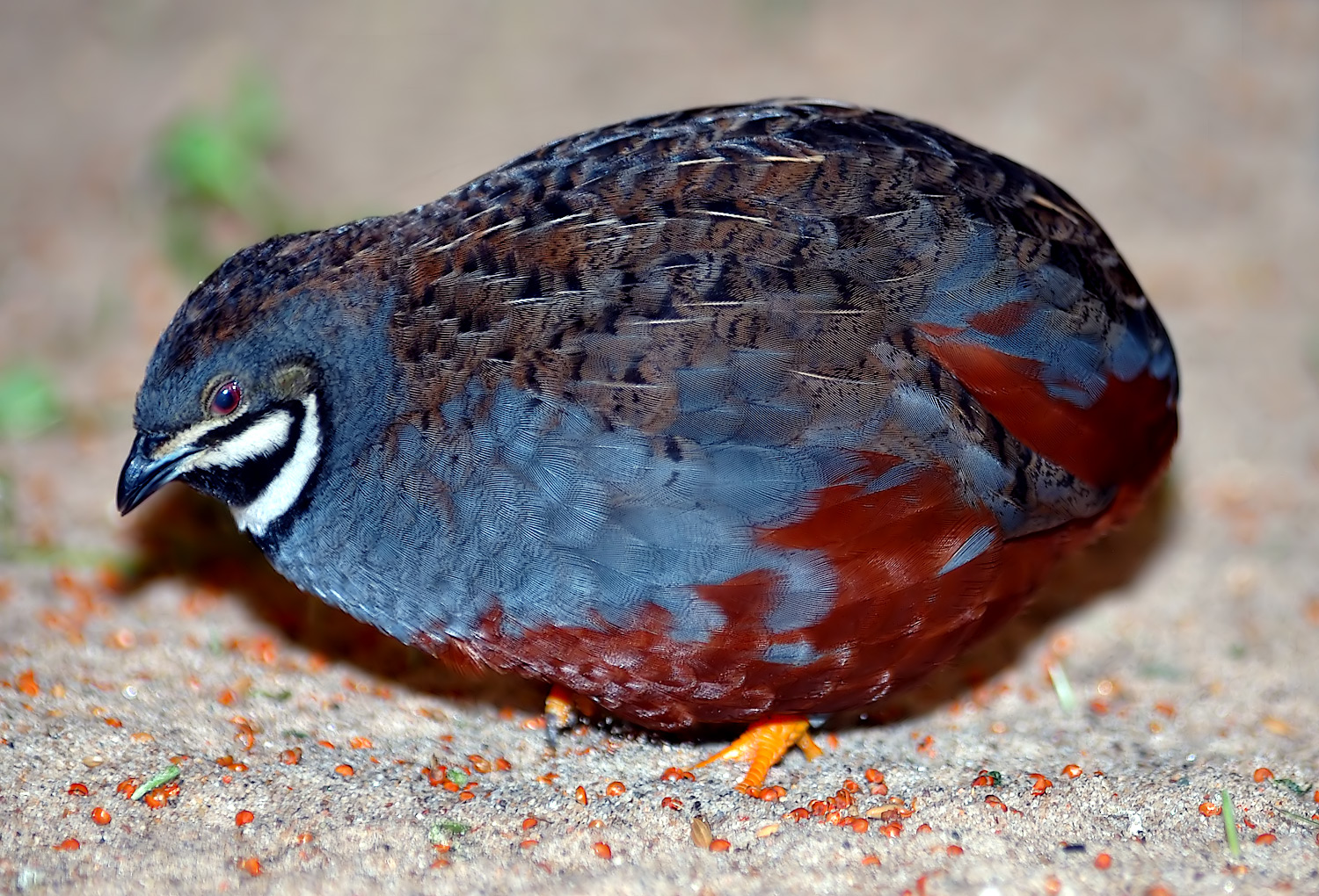 This image shows a Chinese Painted Quail (Coturnix chinensis, formerly Excalfactoria chinensis).